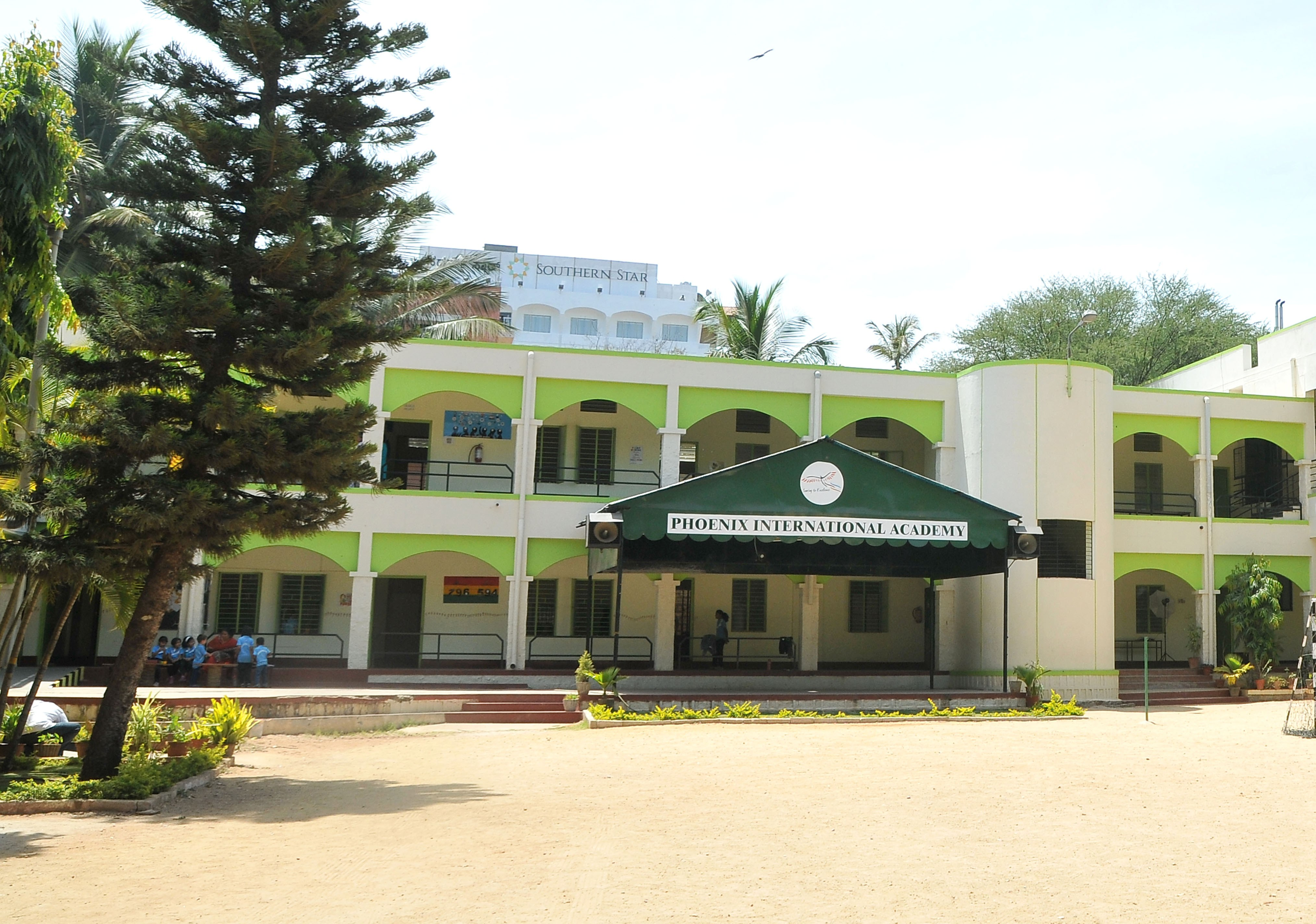 The campus of Phoenix International Academy, Mysore.